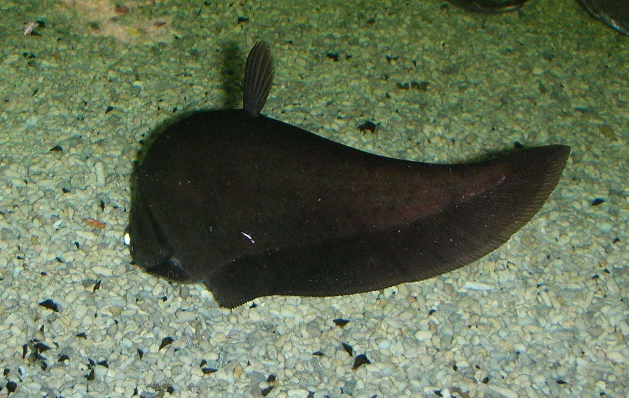 Notopterus notopterus (ปลาสลาด) in an aquarium in Thailand